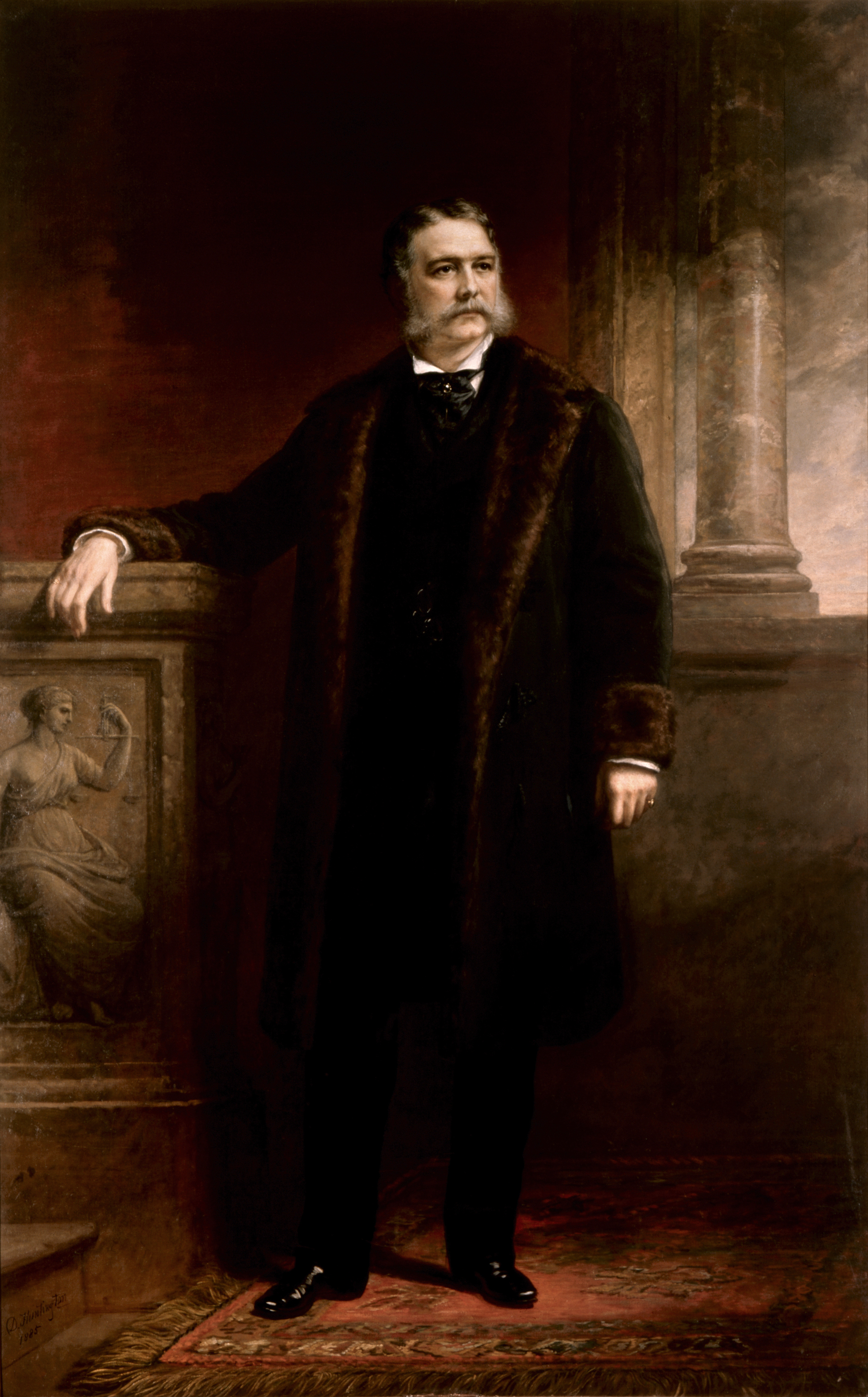 Official Presidential portrait of Chester Alan Arthur